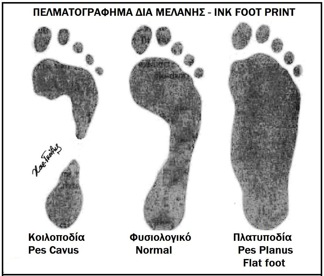 Ink foot print